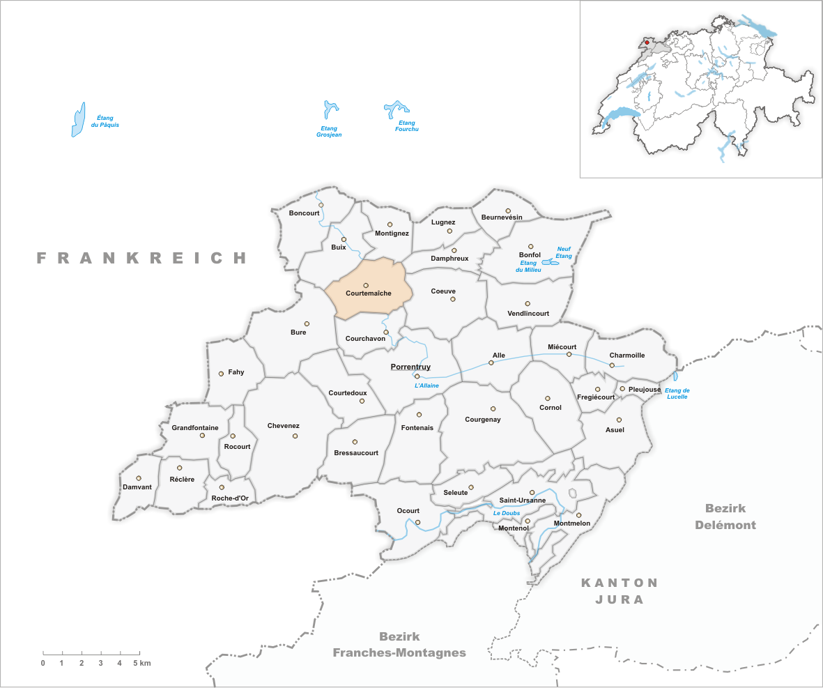 Municipality Courtemaîche Artist: Tschubby